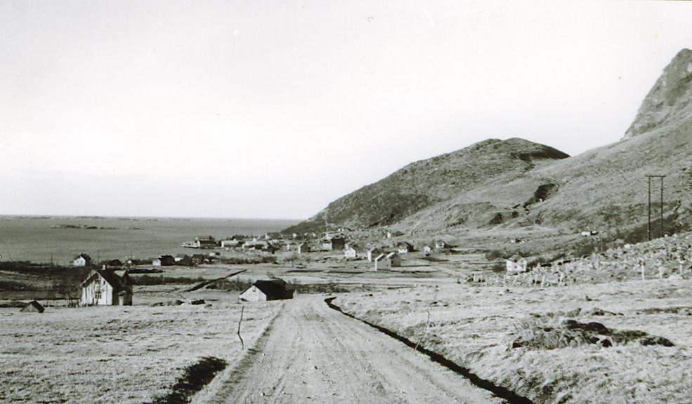 Picture of Gravermark in Lofoten, Norway while local power grid was built in summer of 1957.